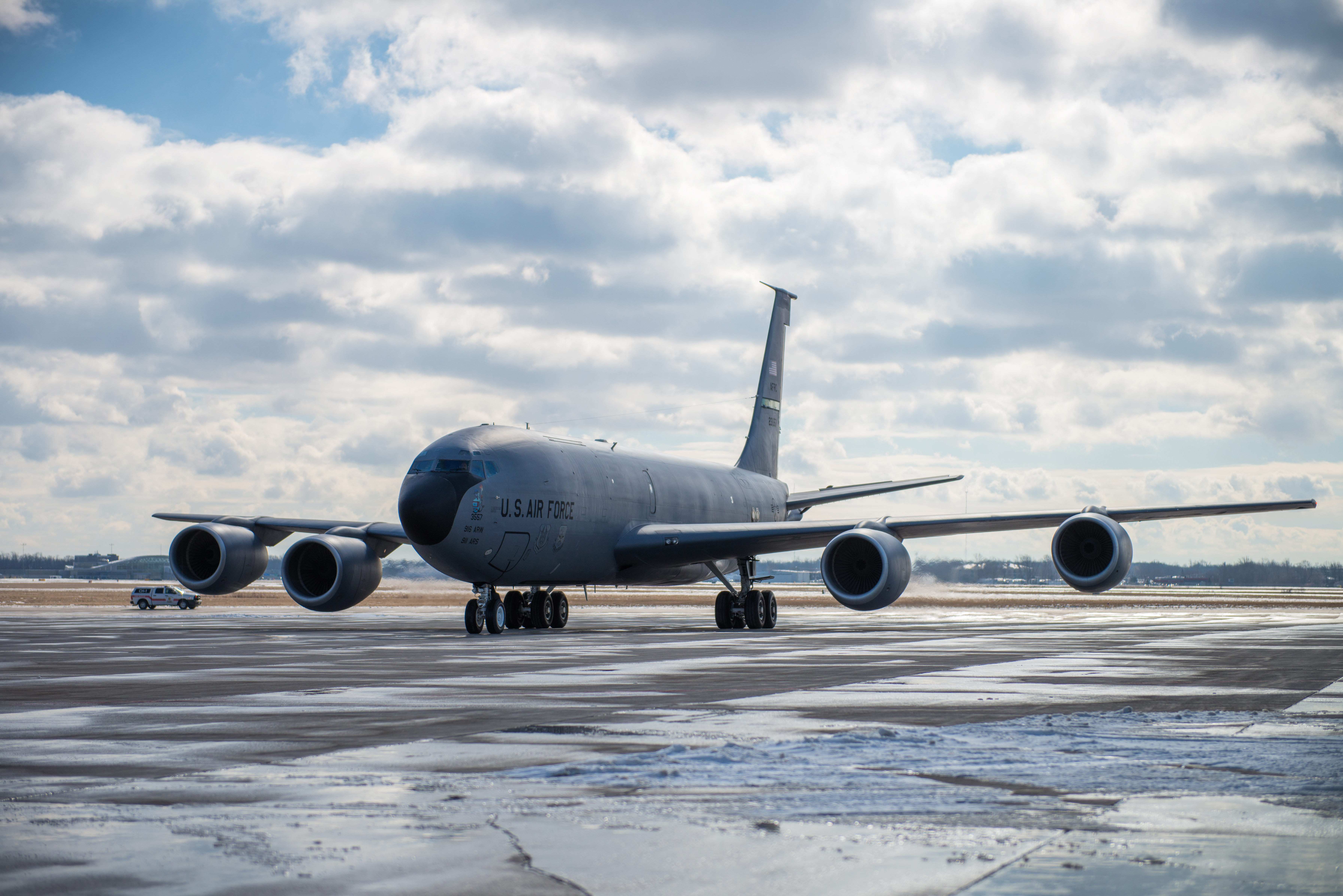 A KC-135 Stratotanker arrives at Niagara Falls Air Reserve Station, N.Y., marking its official arrival and the beginning of the transition of the 914th's mission from an airlift wing to an air refueling wing. This was the first of eight aircraft that will be flown in over the course of the next several months. (U.S. Air Force photo/Tech. Sgt. Stephanie Sawyer)